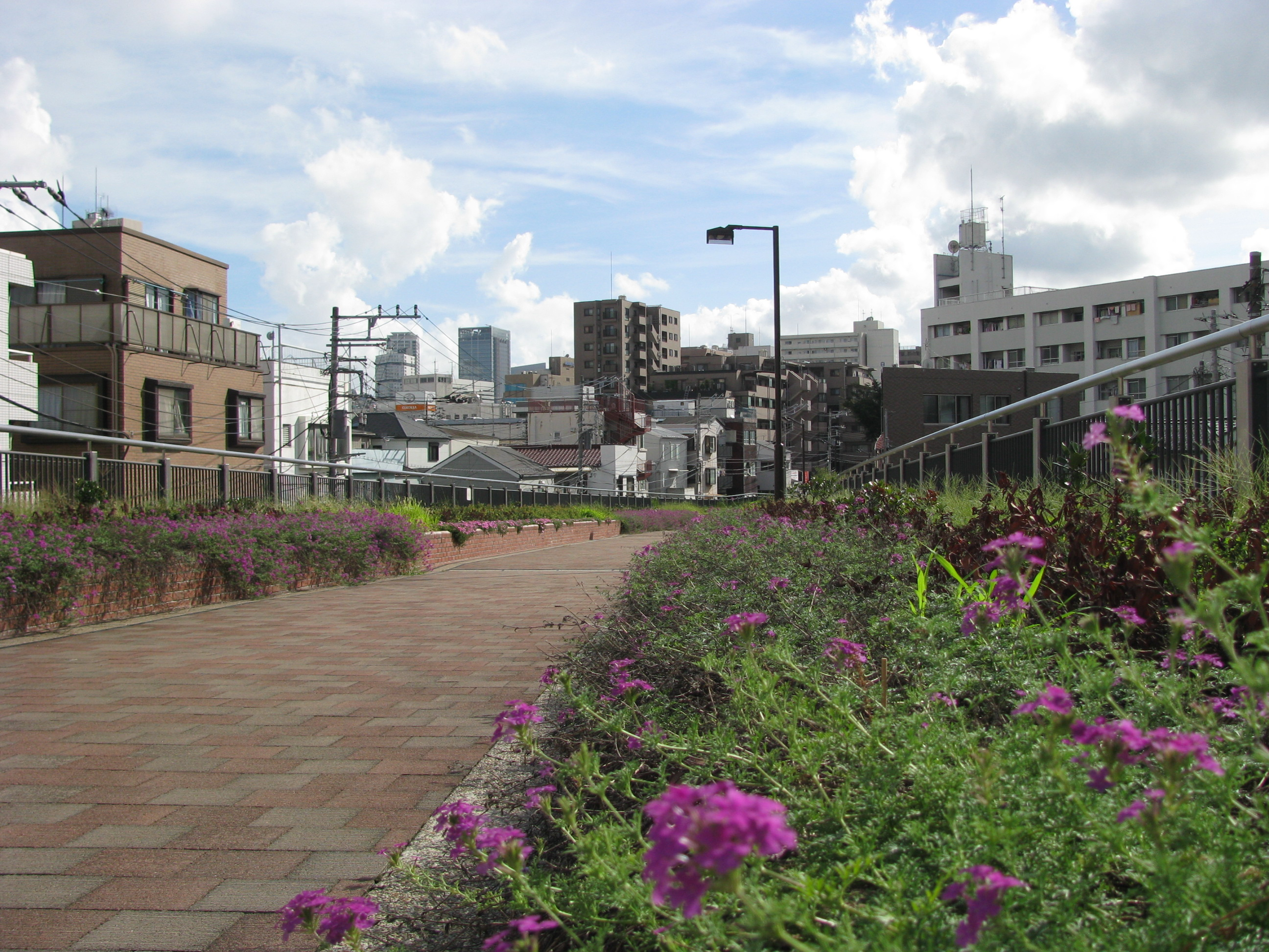 The Toyoko Flower Green way. This location is Hirakawa-machi in Kanagawa-ku, Yokohama, Kanagawa, Japan.